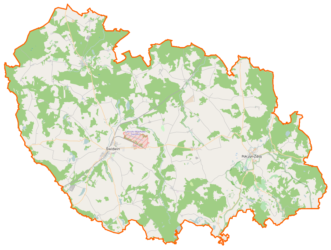 Map of Powiat świdwiński, Poland This map of Powiat świdwiński was created from OpenStreetMap project data, collected by the community. This map may be incomplete, and may contain errors. Don't rely solely on it for navigation.